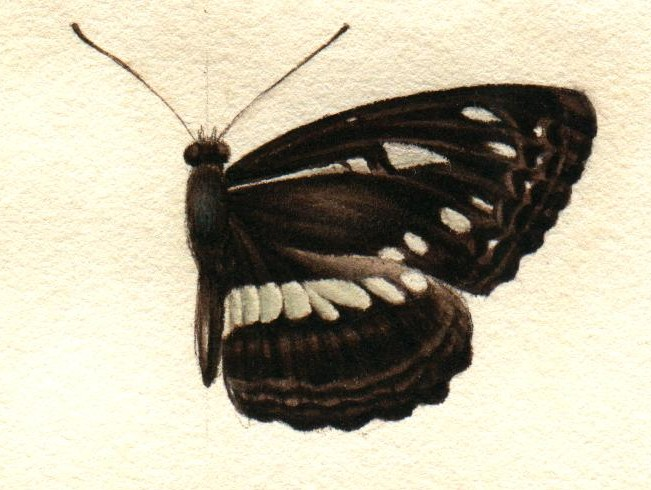 Watercolour of Neptis jumbah (?) by Robert Templeton